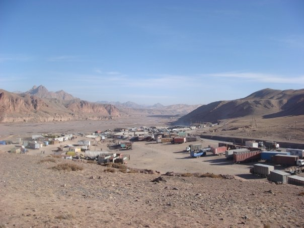 The small village of Irkeshtam as viewed from a nearby hilltop.